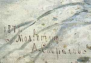 Rooks are back again by Alexei Kondratyevich Savrasov